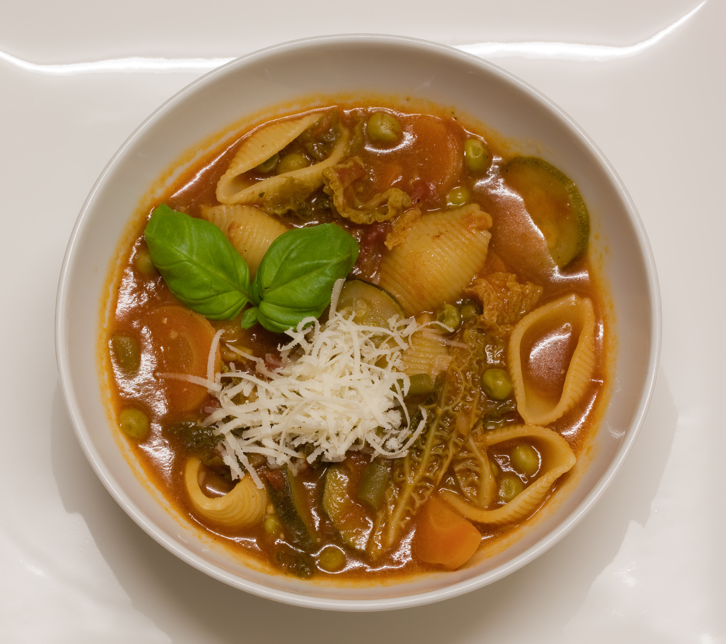 Homemade vegetarian minestrone, chunky/country style, containing the following ingredients: extra virgin olive oil, white onion, carrot, courgette, peas, extra fine green beans, savoy cabbage, conchiglie pasta, coarse ground black pepper, table salt, garlic purée, vegetable stock, water, tinned chopped tomatoes, fresh basil, Worcestershire sauce, parmigiana cheese. Garnished with grated parmigiana and a sprig of basil.